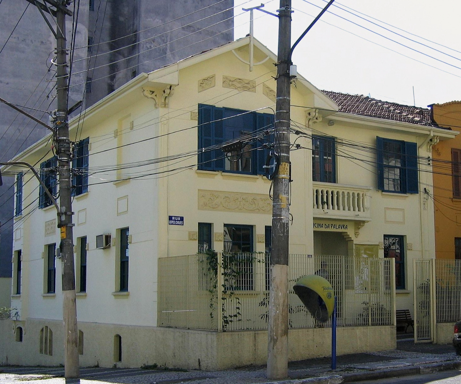 Mário de Andrade's house in São Paulo